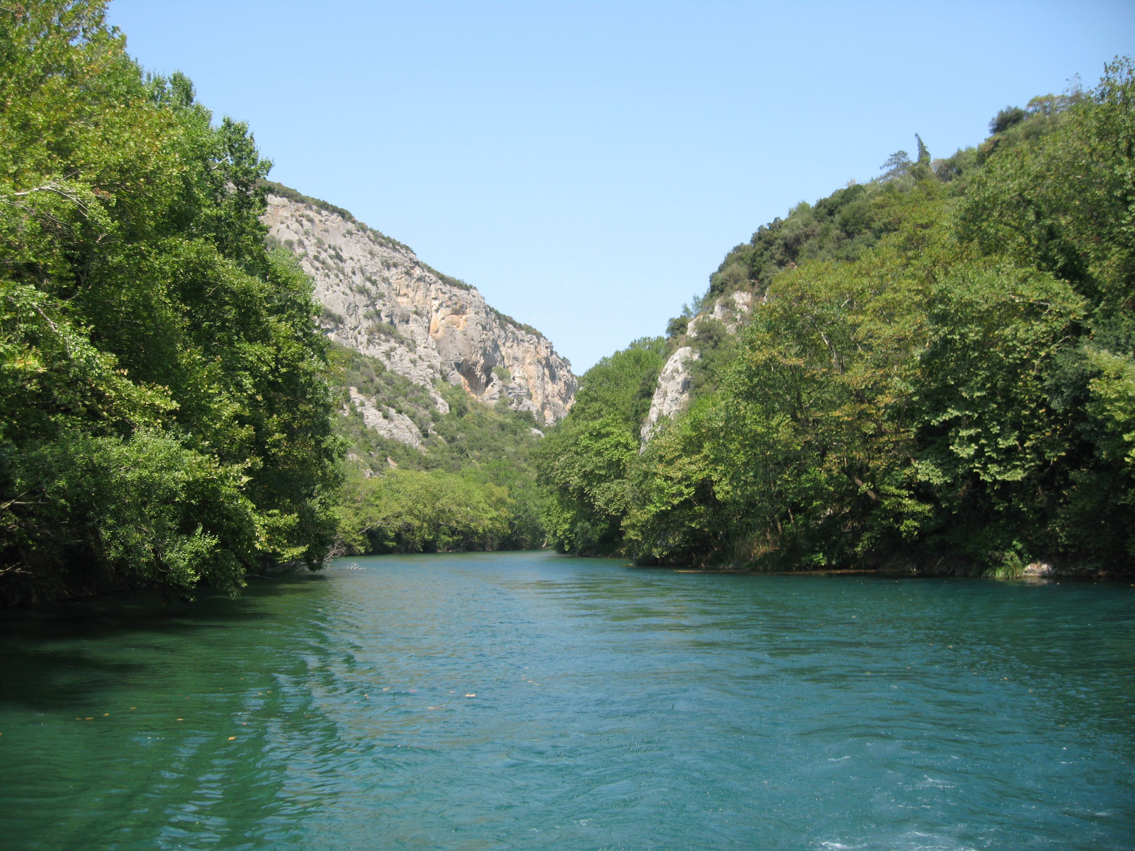 The Gorge of Pineios River (Thessaly), flowing through the Valley of Tempe.